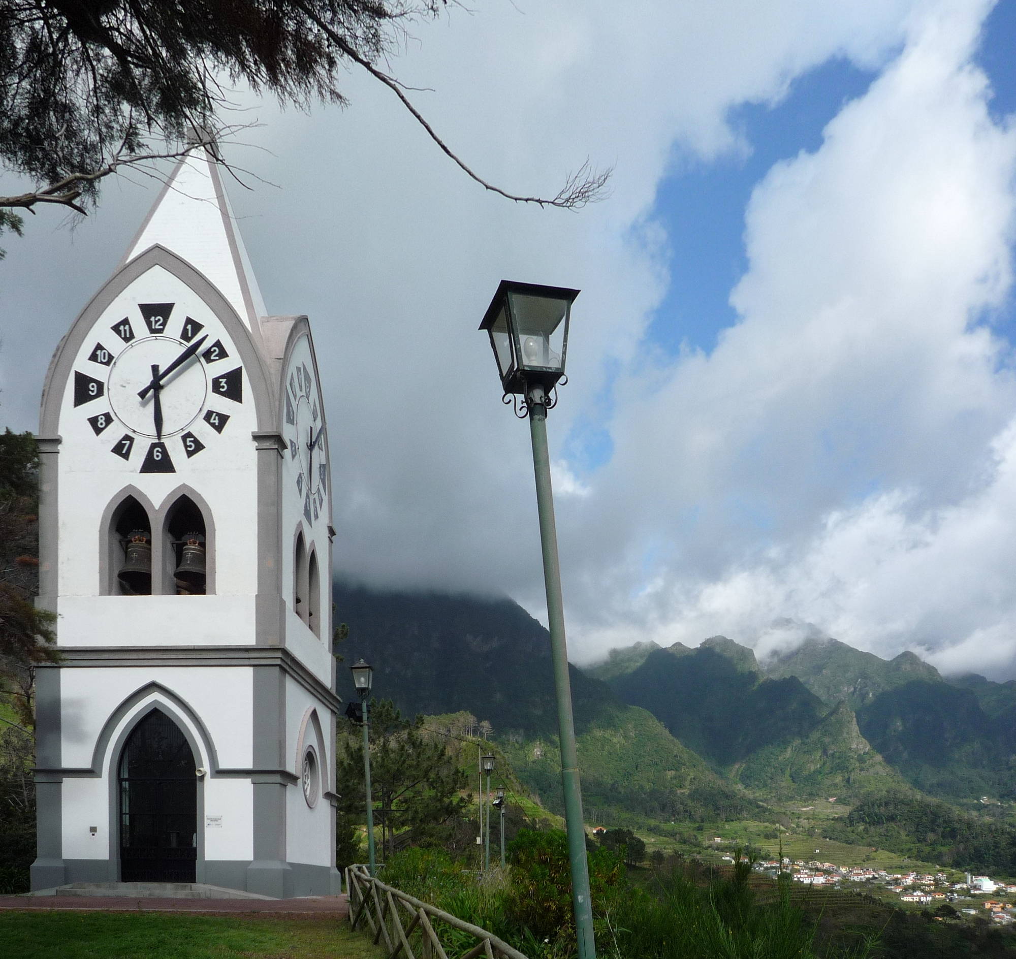 A clock tower and a small chapel dedicated to Our Lady of Fátima in a prominent position on the Pico da Cova in São Vicente freguesia, Madeira. It is 14 metres high and was built between 1942 and 1953. More images.